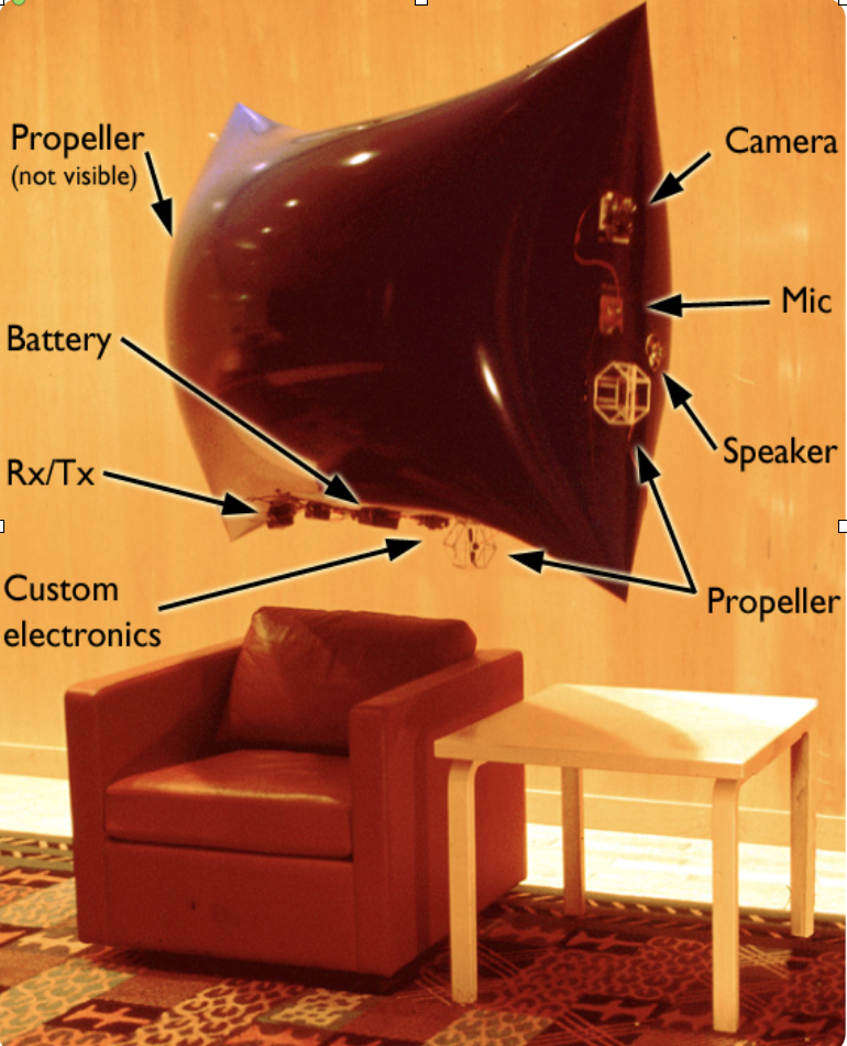 PRoP: Personal Roving Presence Telepresence Blimps from 1994